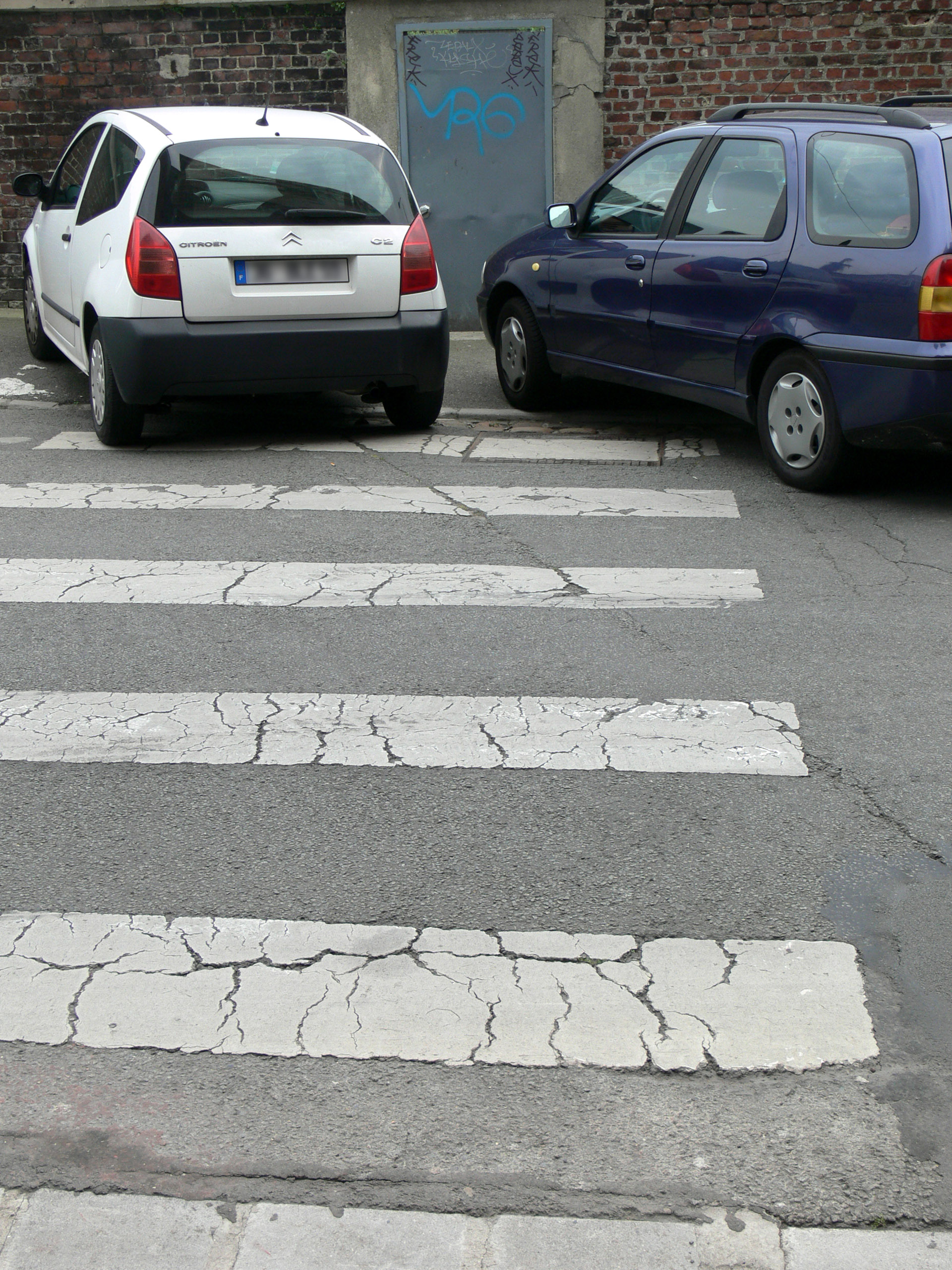 French Crosswalk, in Lille (north of France), near "Pasteur institut", June 2009